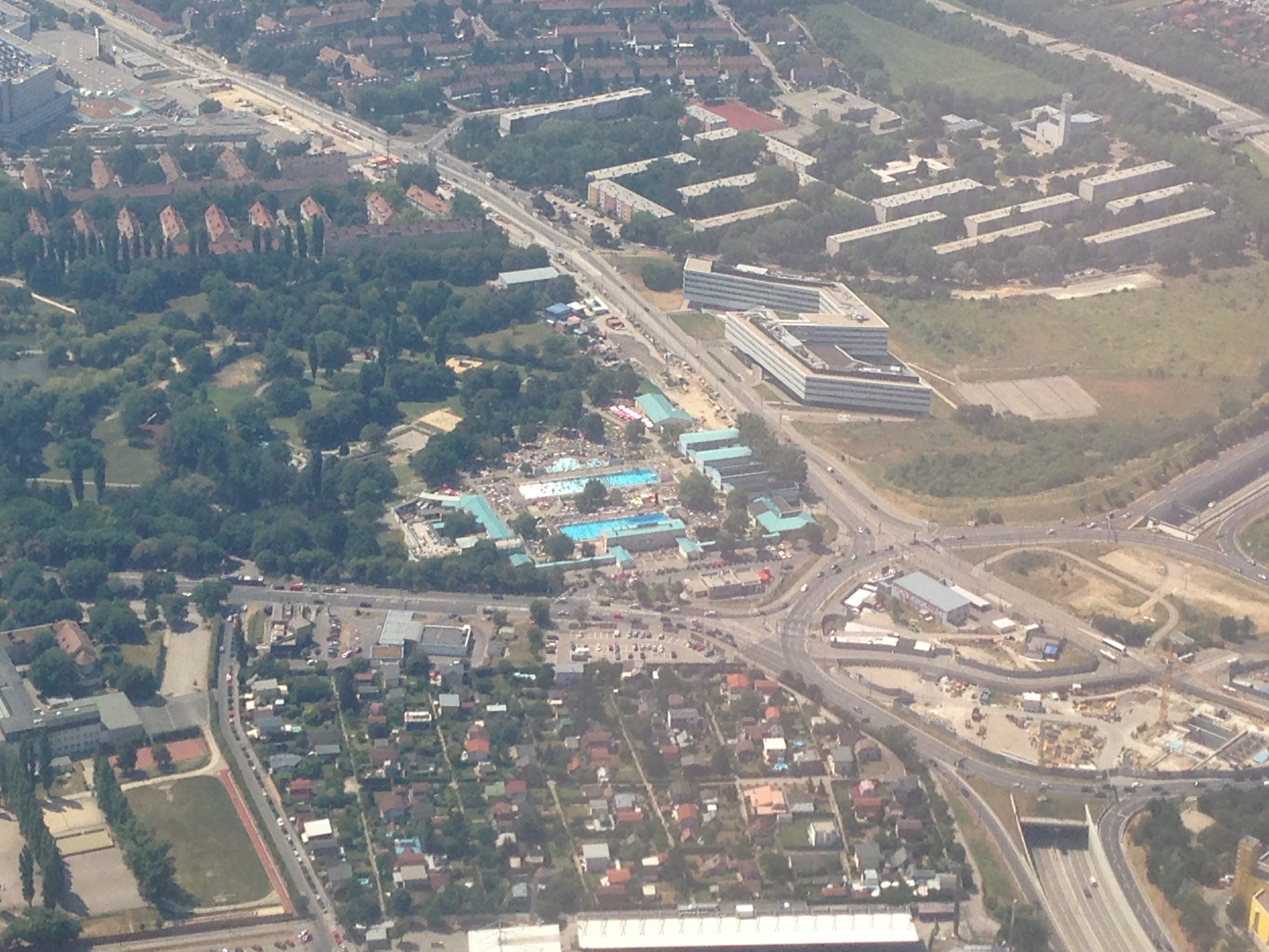 Vienna Aerials July 2013 - 07